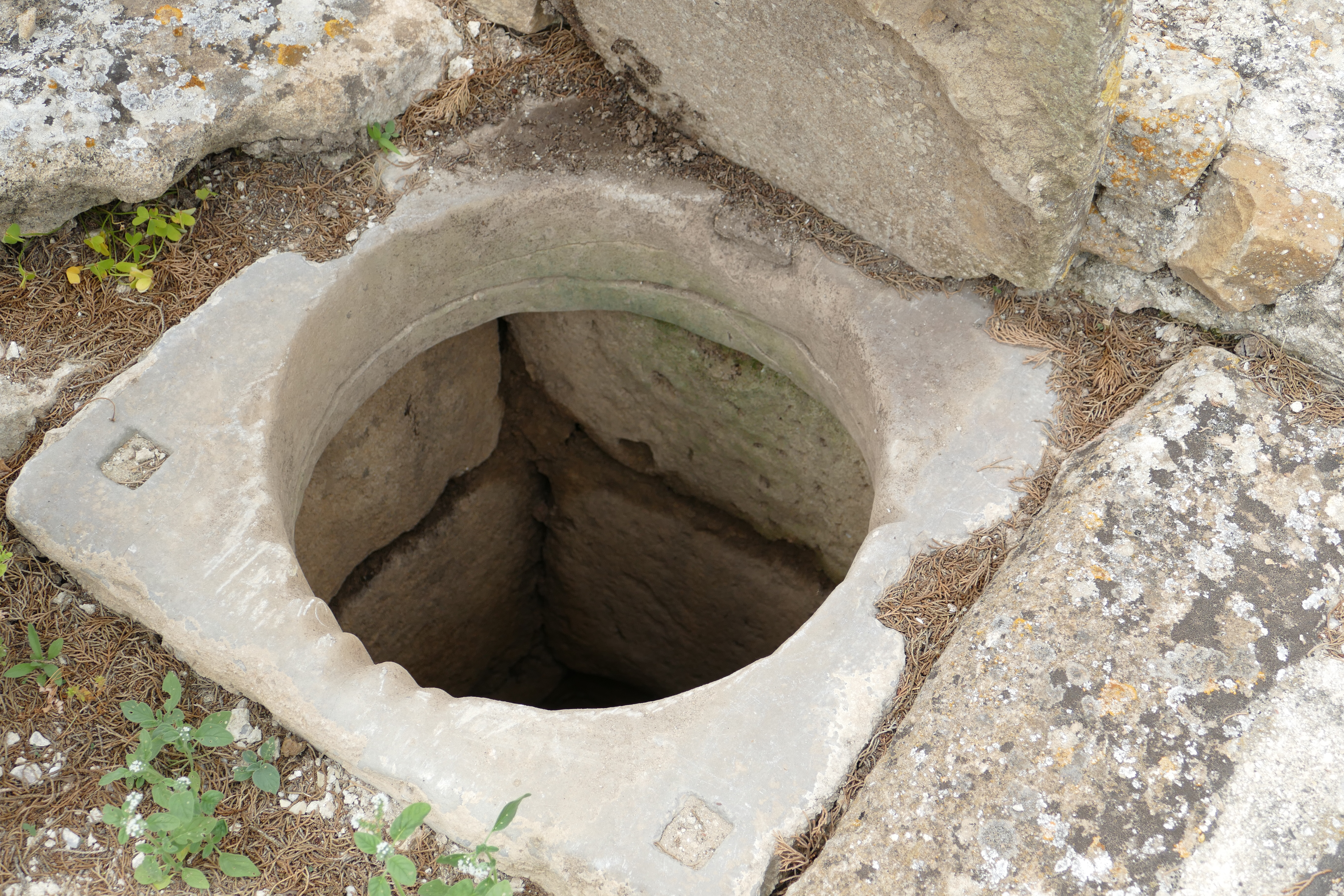 Rim of an ancient Roman well in Utica, Tunisia, showing signs of wear from ropes